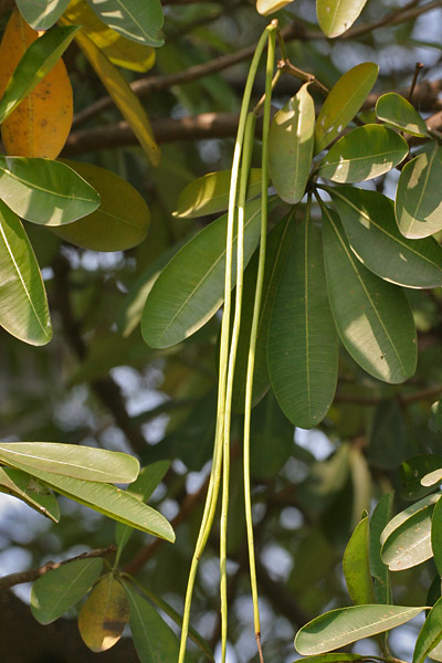 Saptaparni Alstonia scholaris in Kolkata, West Bengal, India.